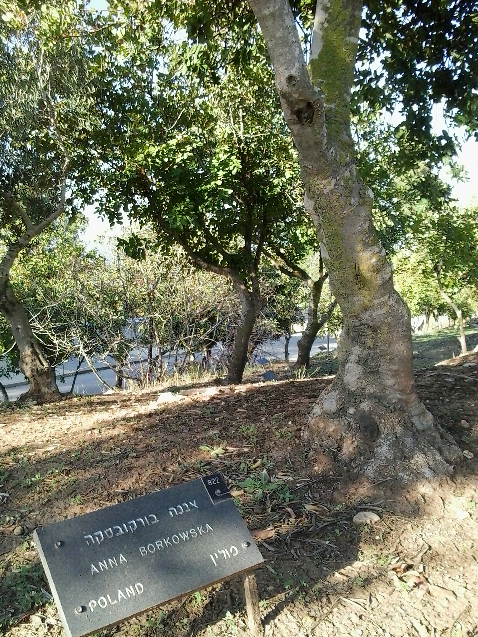 The tree planted at Yad Vashem honoring Righteous Among the Nations Anna Borkowska